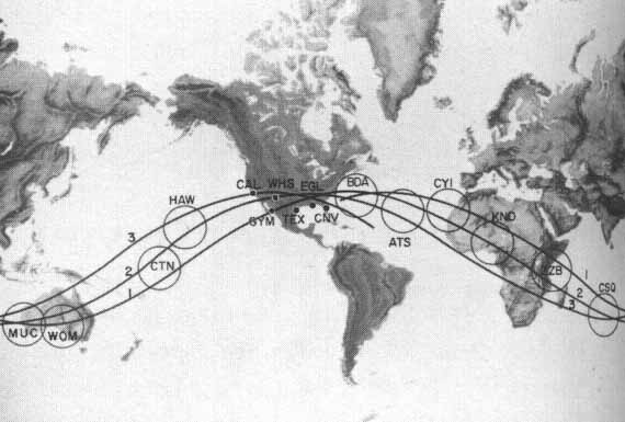 Map showing the locations of the selected Mercury stations.